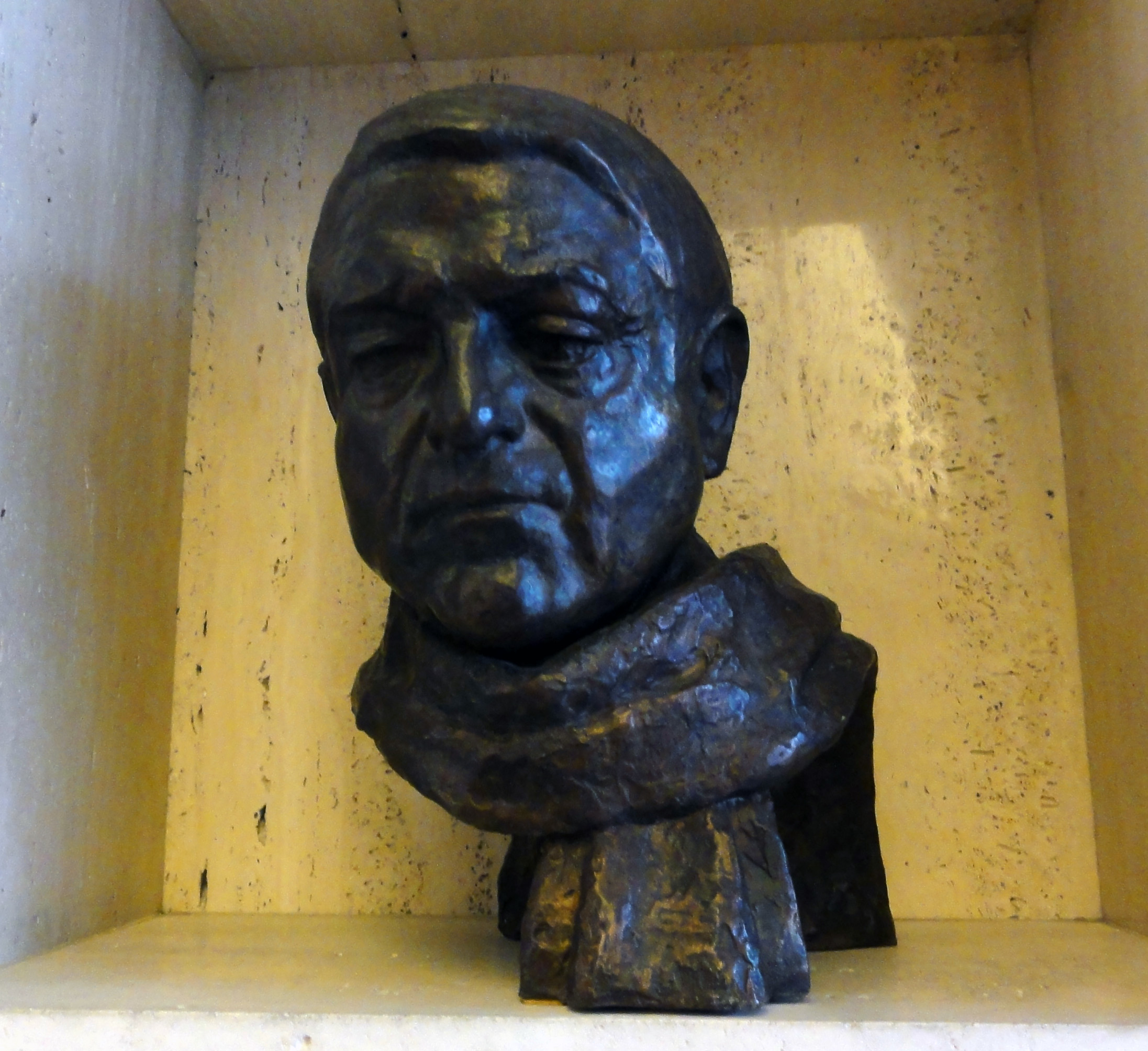 Bust of Colin St John Wilson on display in the foyer of the British Library (right hand side of main public entrance). Taken as part of the British Library editathon.